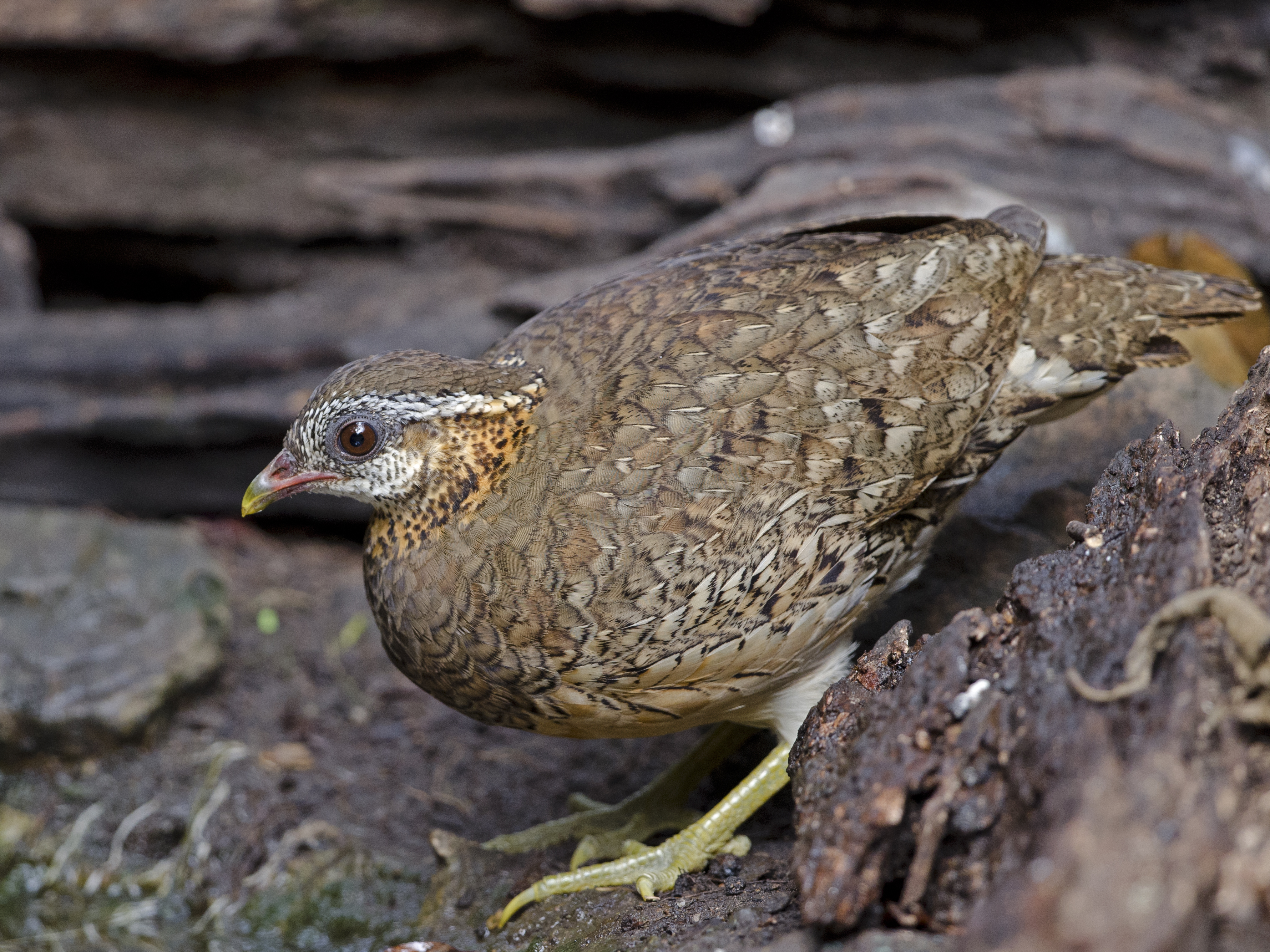 Scaly-breasted Partridge (Arborophila chloropus) at Kaeng Krachan National Park, Thailand